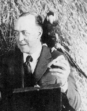 Edgar Rice Burroughs